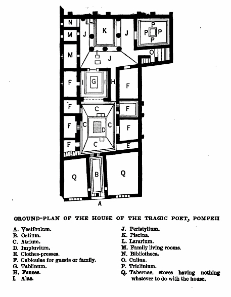 Ground plan and layout of a Roman street level domus from Pompeii